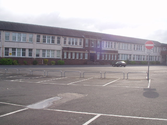 Williamwood High School. School's out for summer!